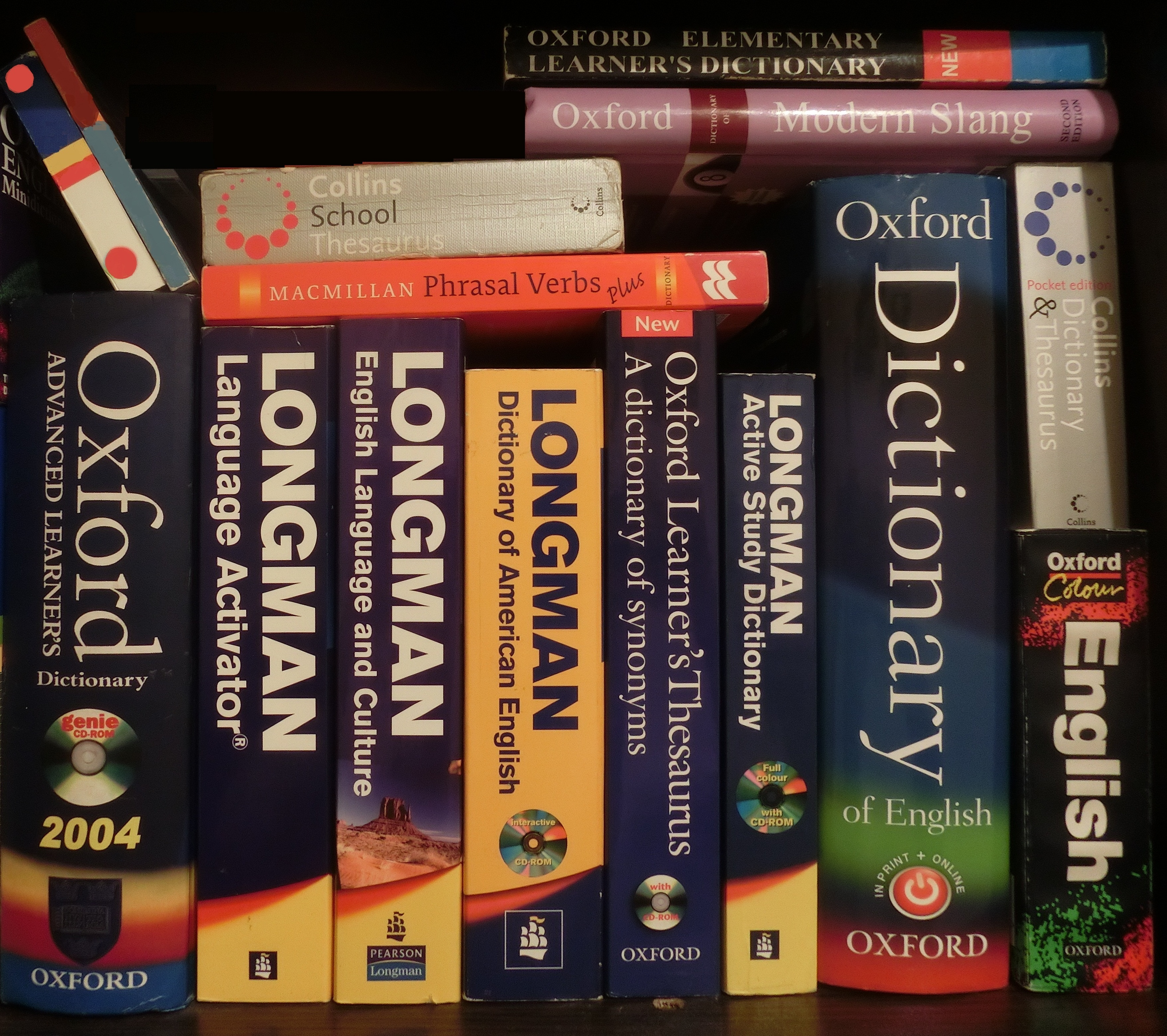 English-English dictionaries and thesaurus books